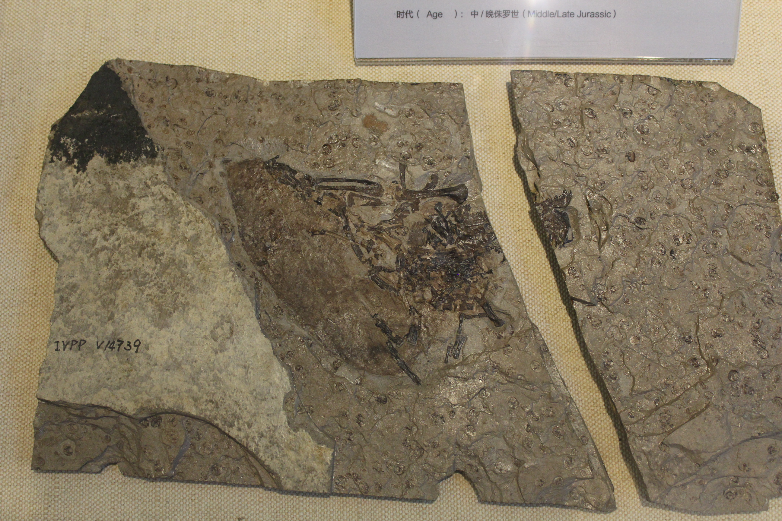 Holotype of Volaticotherium antiquum on display at the Paleozoological Museum of China.